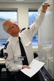 A teacher from the Politieacademie (Police Academy) in the Netherlands writing on a whiteboard.